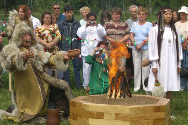 The Yakut national ritual called "Feeding the fire".